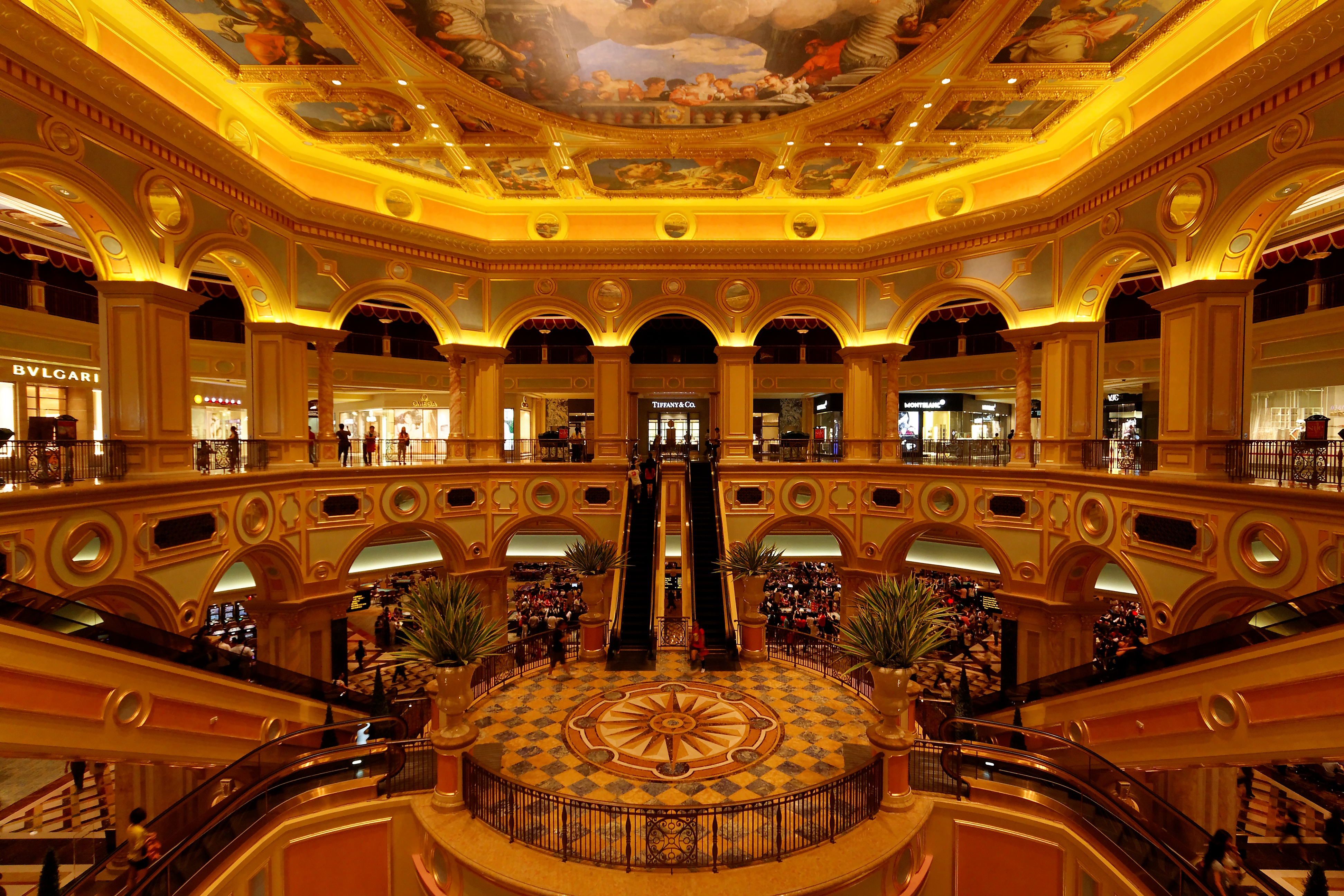 The Venetian Macao Resort Hotel